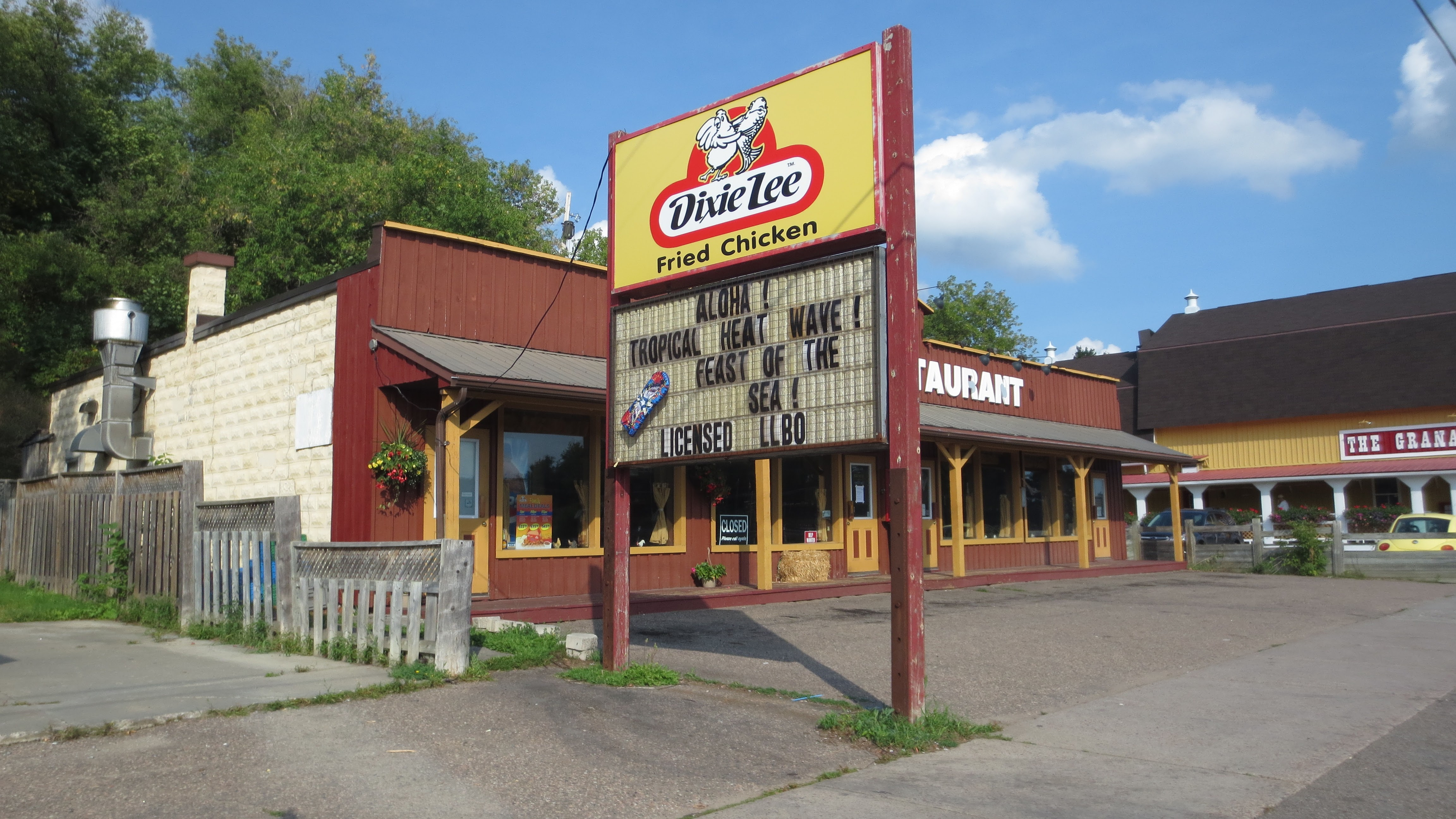 Eganville Ontario Dixie Lee Restaurant 2014